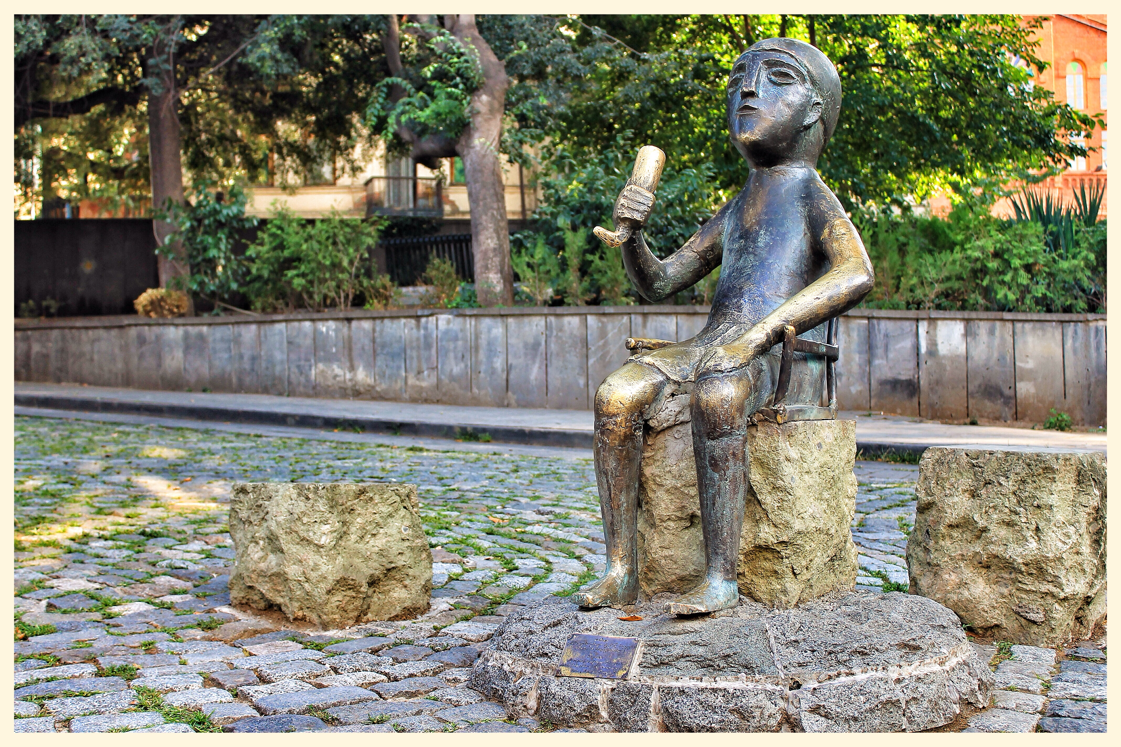 Statue of Tamada (Georgian toastmaster) in Tbilisi, Georgia